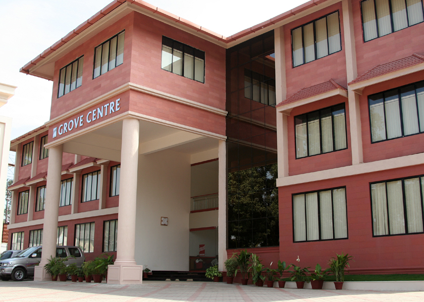 Merchem HQ